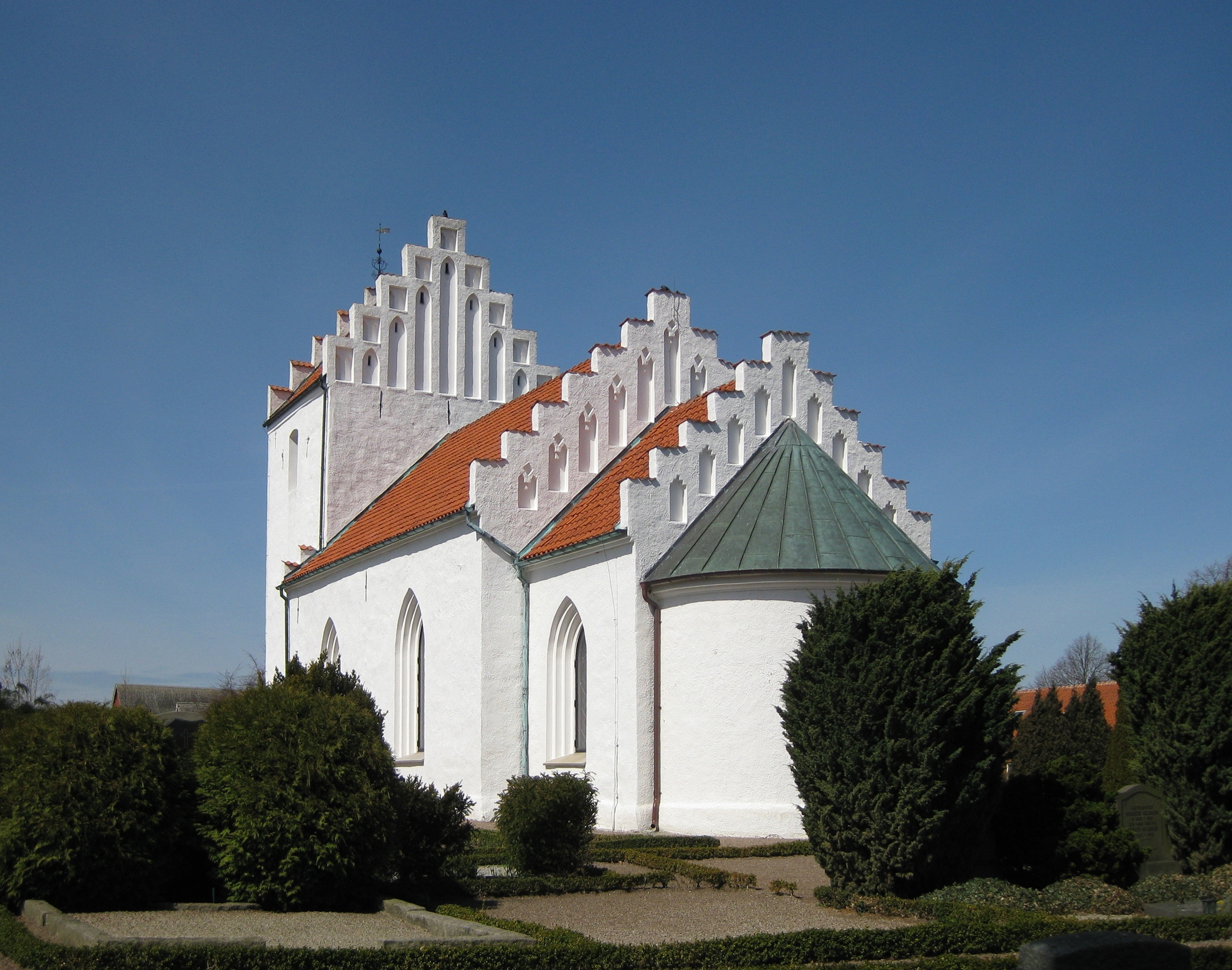 Tofta church in Skåne, Sweden